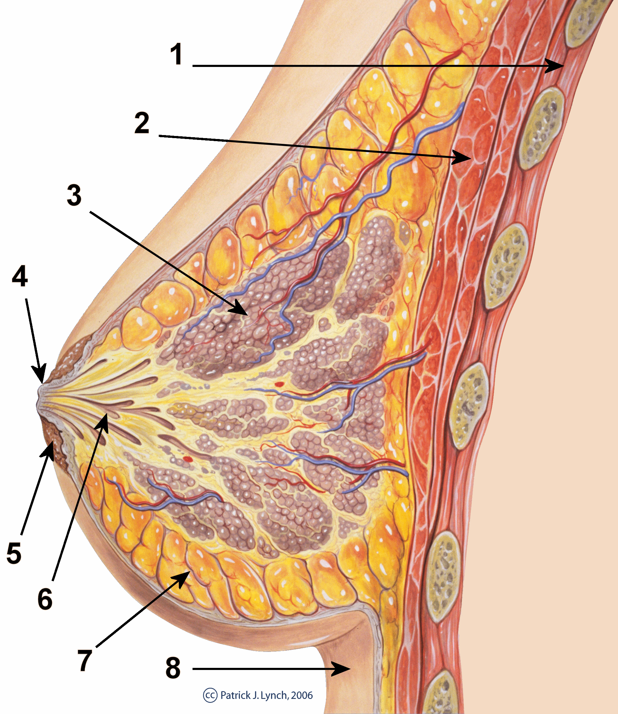 Breast normal anatomy cross-section, now thought to be incorrect[1] with numbered legend arrowsKurdî: Anatomiya memikê û rijenên şîrê.